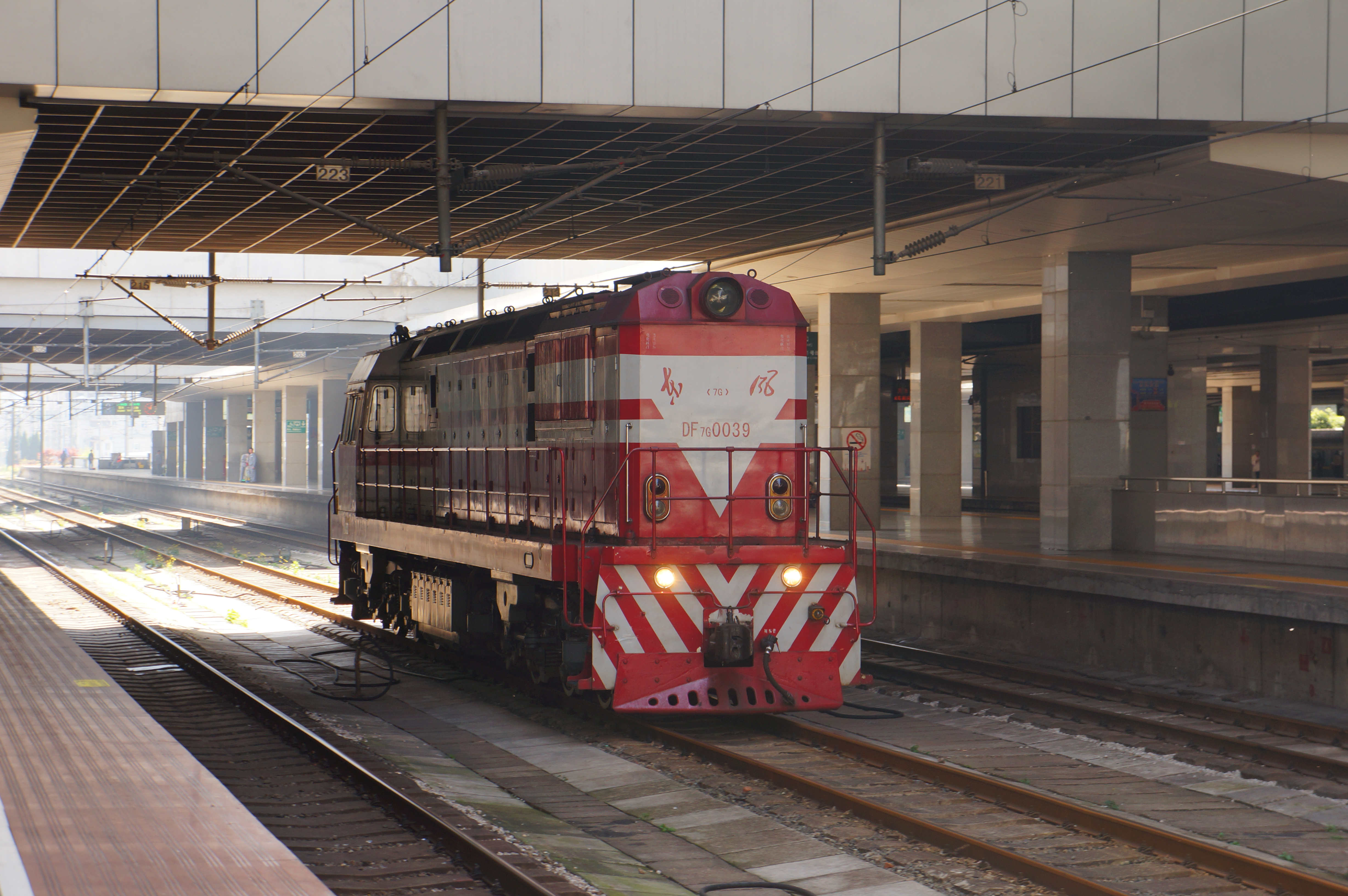 201704 DF7G-0039 at Shanghai Station